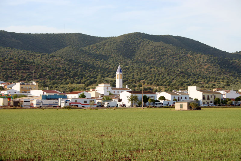 Navahermosa, Málaga.